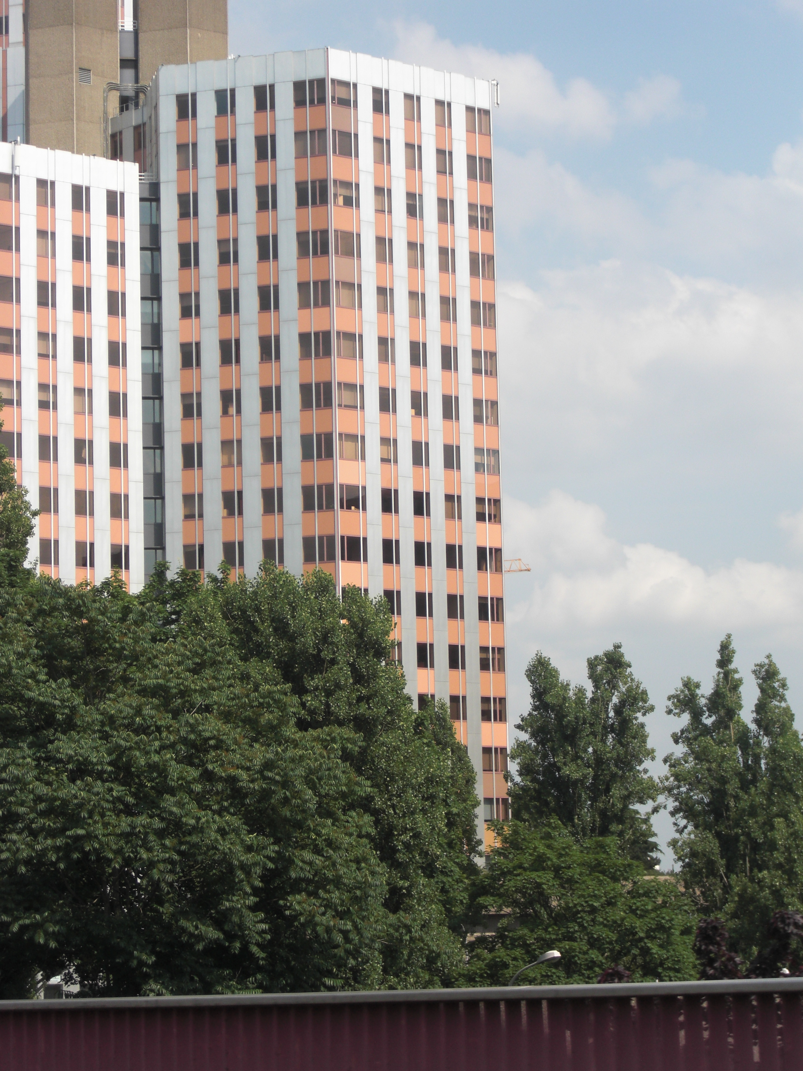 A building in Boulogne-Billancourt (France).